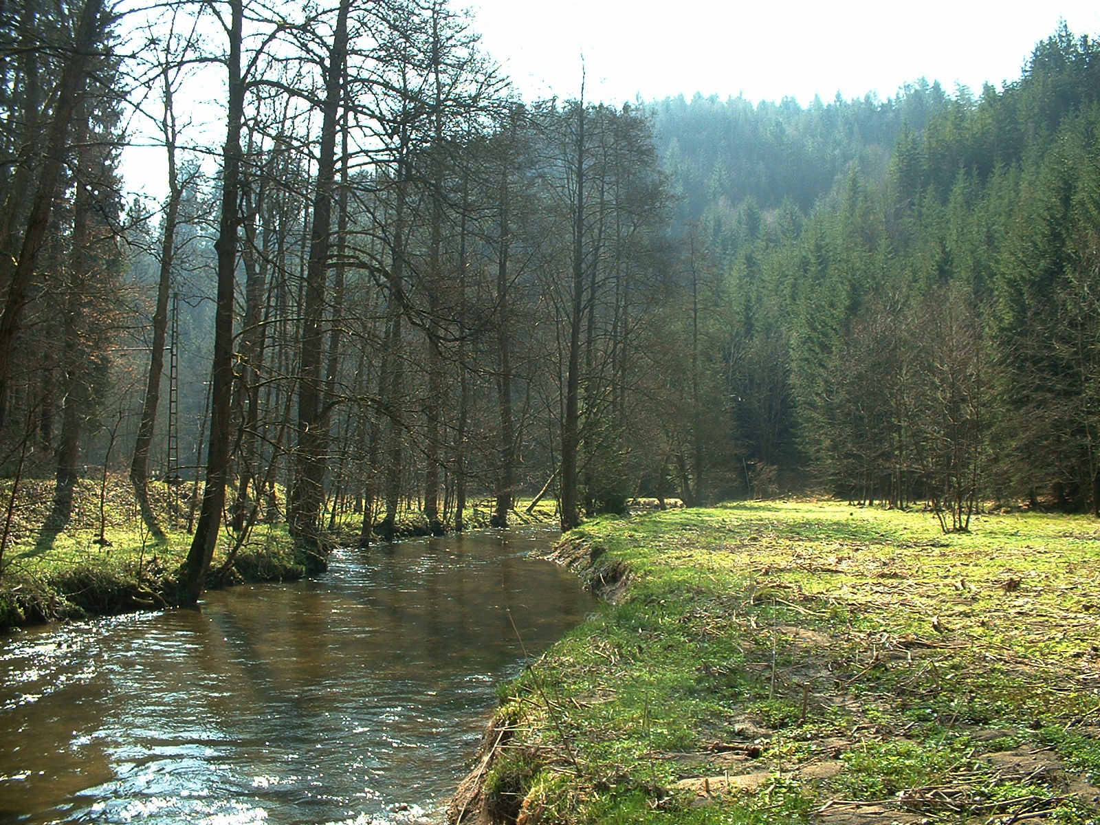 The Kirnitzsch (czech: Křinice) is a river in the Elbe Sandstone Mountains. The river head is in the Czech Republic and the river mouth in Germany.